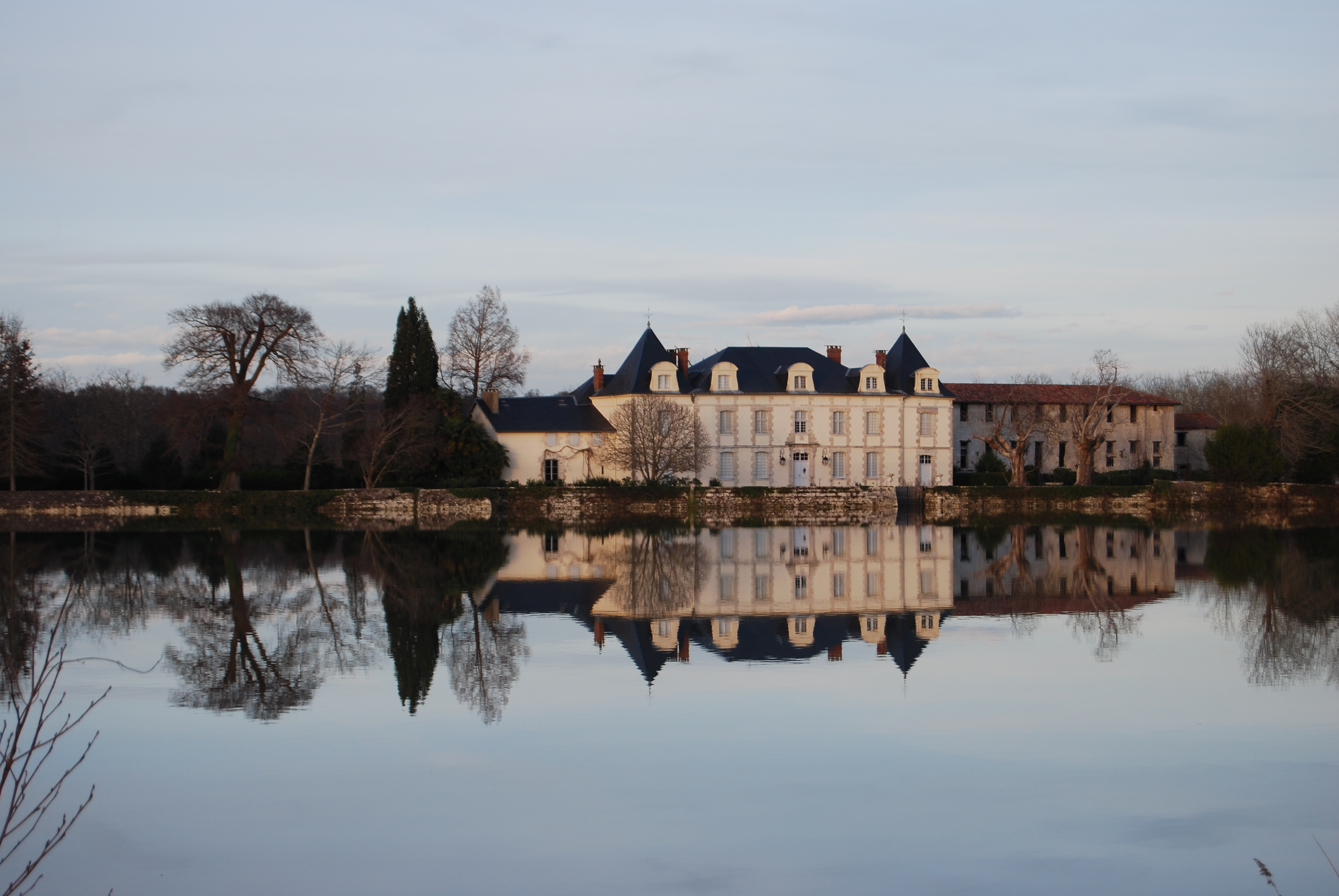 Montpellier castle, in Saint-Laurent-de-Gosse, Landes, France.